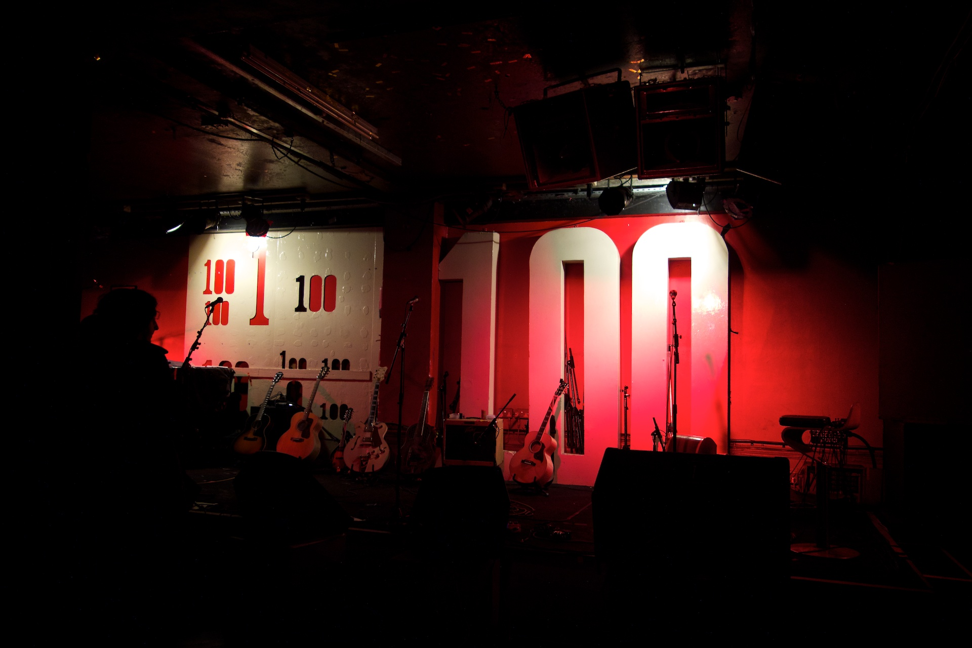 The Dodge Brothers at the 100 Club